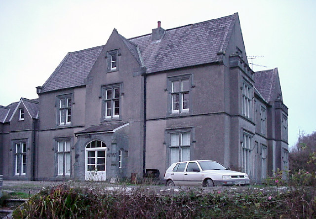 Clynfyw. A wonderful venue for conferences - disabled friendly. Gardens under restoration by volunteers.Lovely atmosphere.